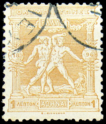 Stamp of Greece, The First Olympic Games, 1896, 1 l.